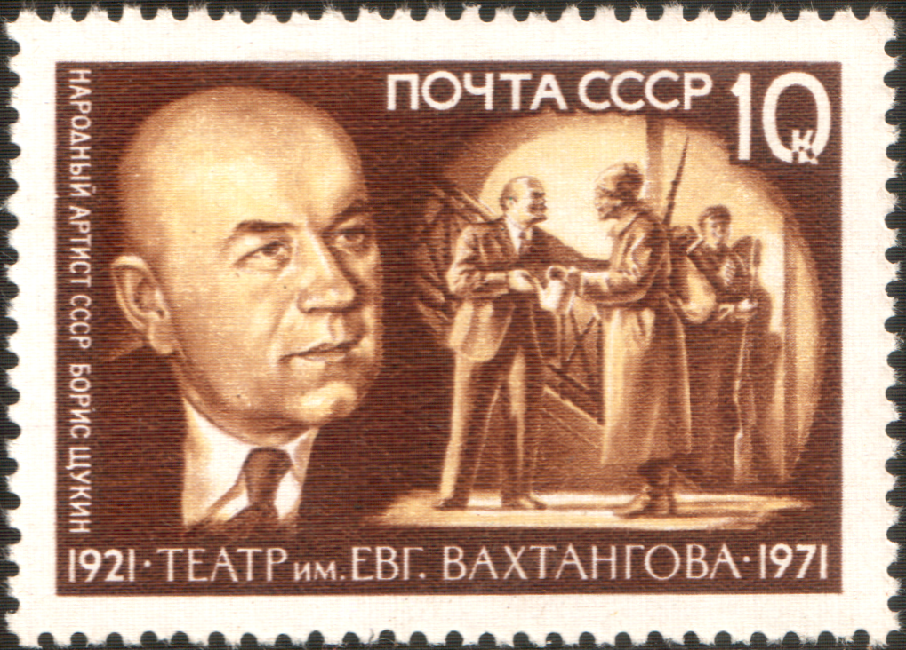 USSR stamp: Boris Shchukin (Actor) and Scene from "The Man with the Rifle" (Lenin). Series: 50th Anniversary of Vakhtangov Theatre, Moscow